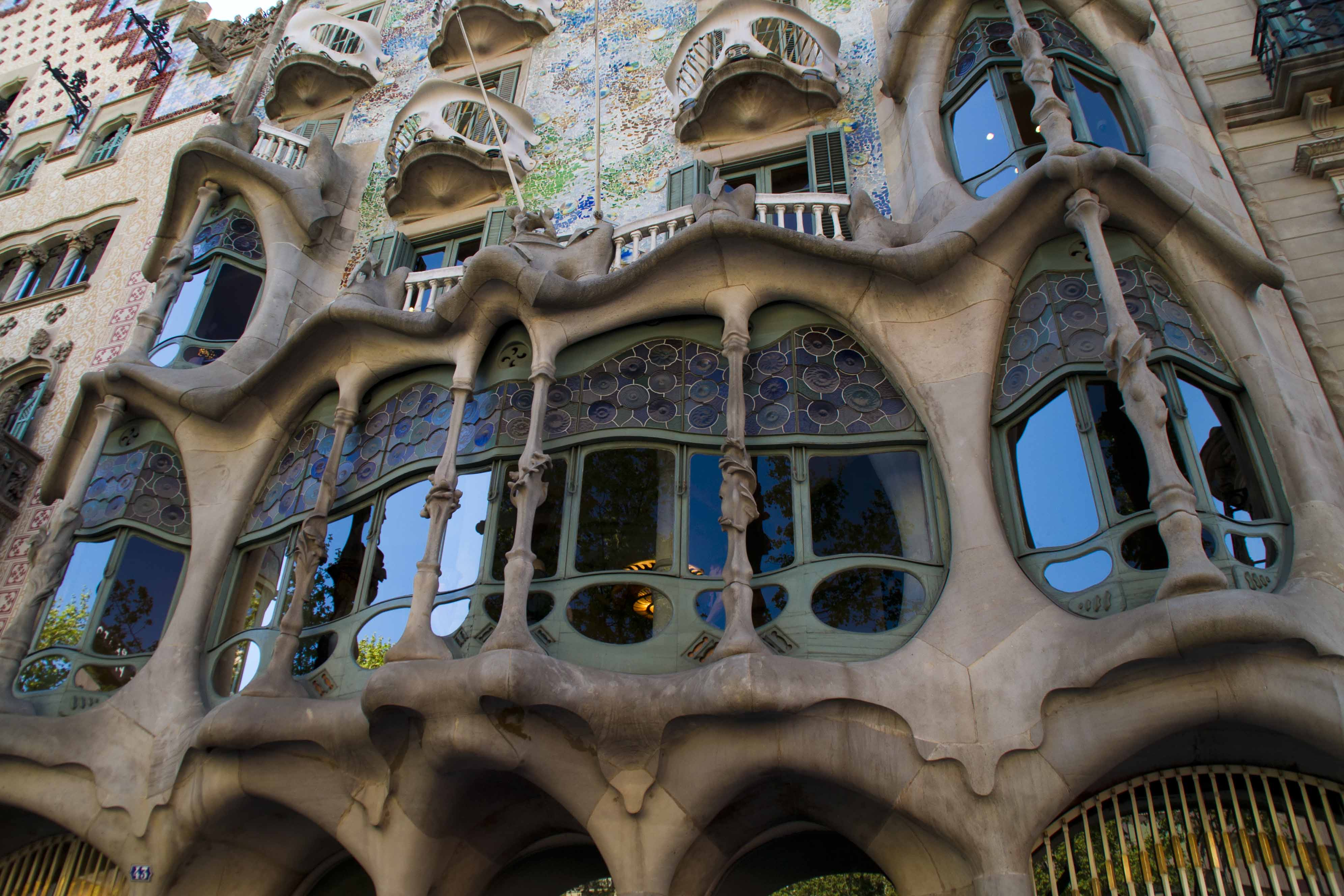 Casa Batlló